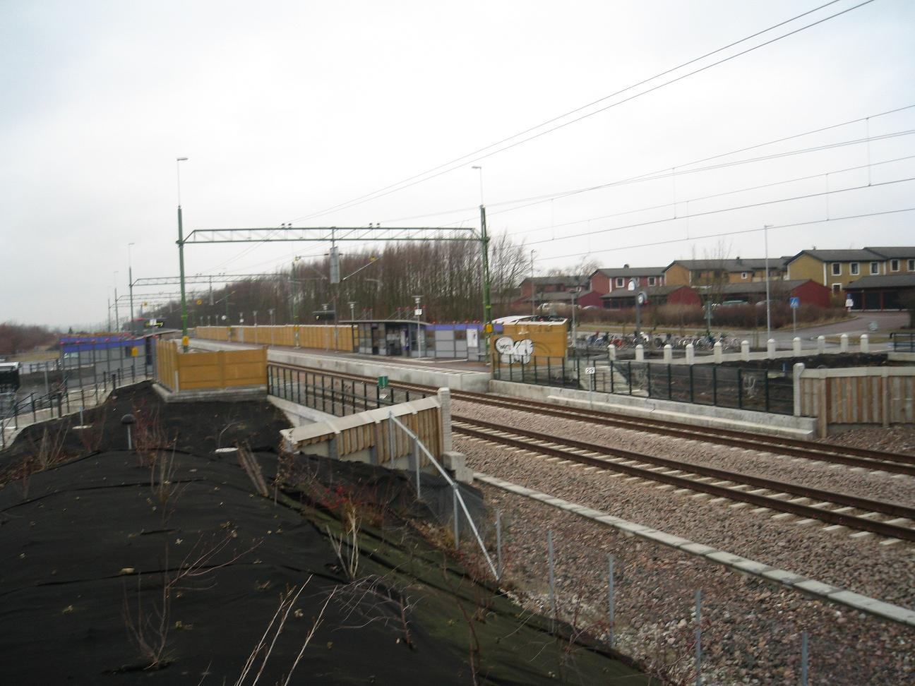 Foto taken by me, Angriffer, March 31 2006. Gunnesbo station, Lund.